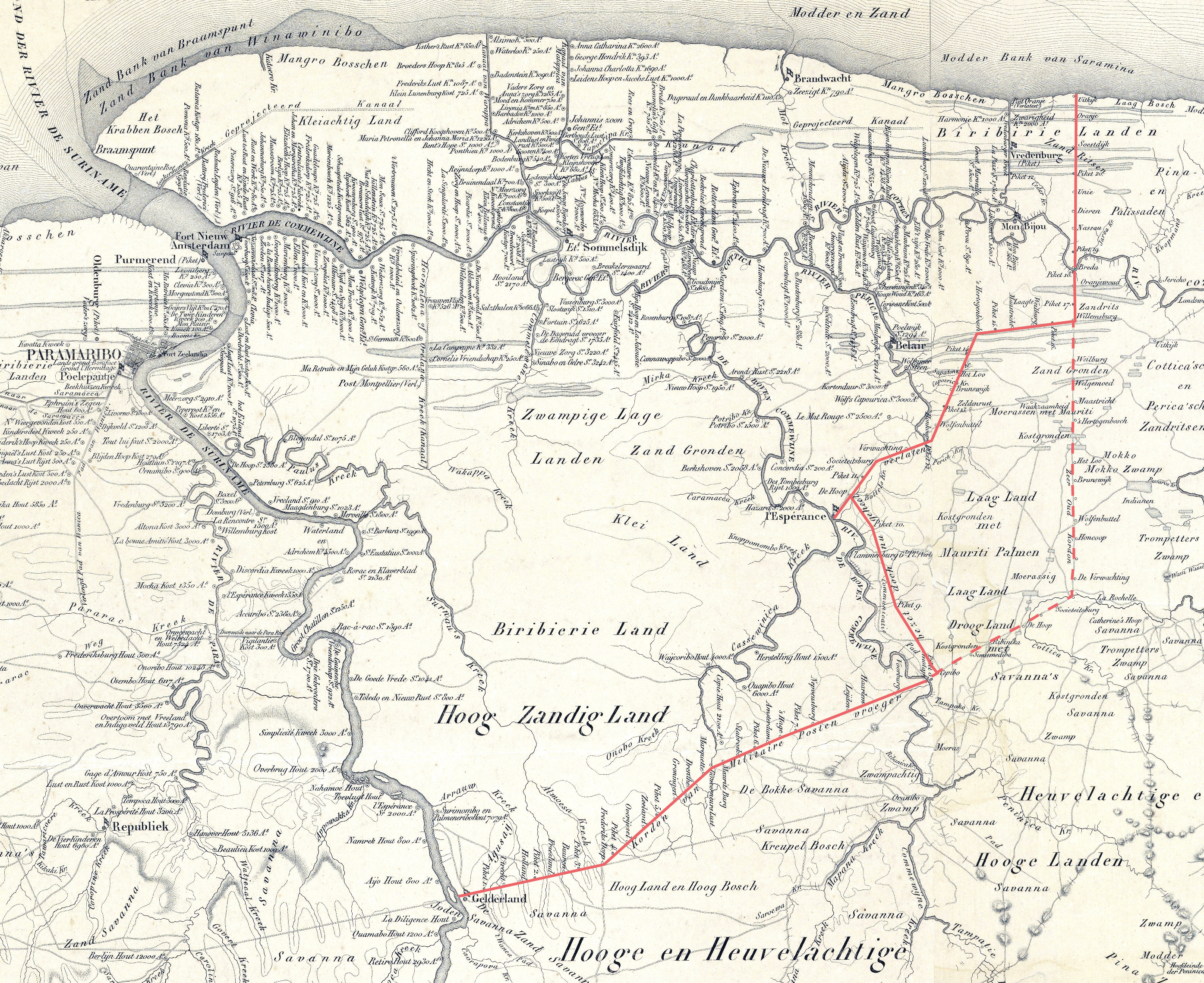 Position of the Cordonpad in Surinam, plotted on a portion of the map: 'Kaart van de Kolonie Suriname, een gedeelte van Guijana, Nederlandsche bezitting op het vasteland Zuid-Amerika Uitgegeven in het Jaar 1784 door den Ing. J.C. Heneman. Verbeterd, naar den tegenwoordigen toestand der Kolonie gewijzigd, en daarop alle bestaande Plantagiën aangeduid, door Jonkh. C.A. van Sijpesteijn, 2de luitenant der Artillerie, Adjudant van Z.Exc. den heer Generaal Majoor R.F. Baron van Raders, Gouverneur van Suriname. 1849.'